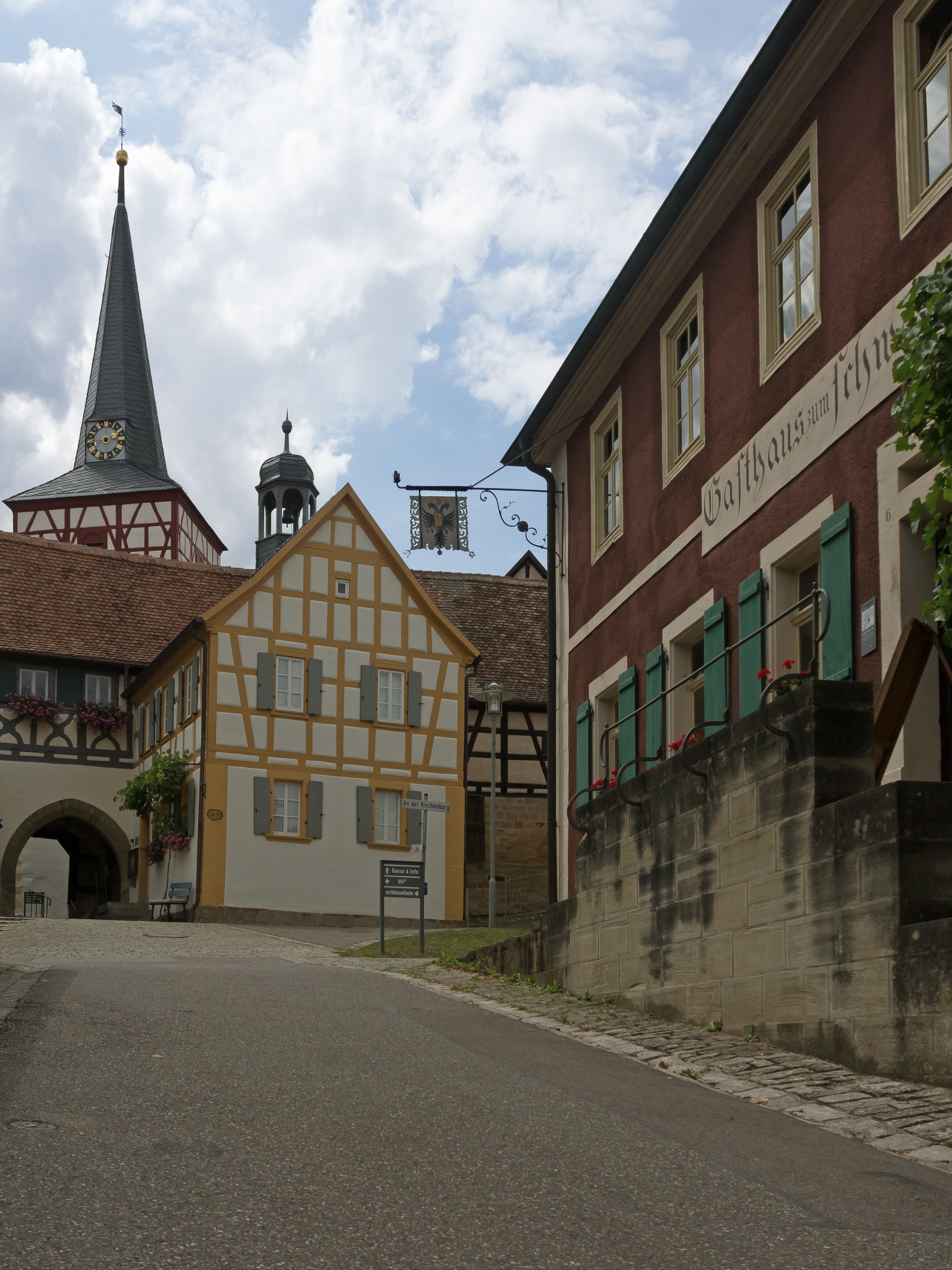 Mönchsondheim, churchtowert (die Sankt Bonifatiuskirche) in the street